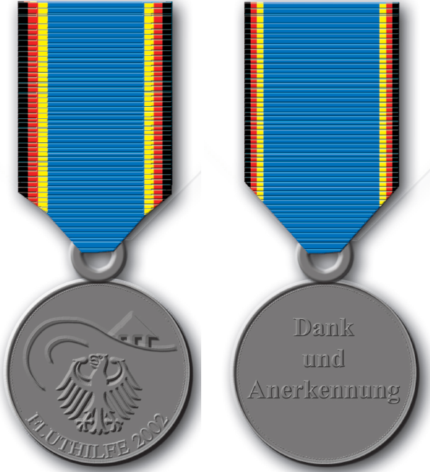 German Flood Service Medal 2002, obverse and reverse.